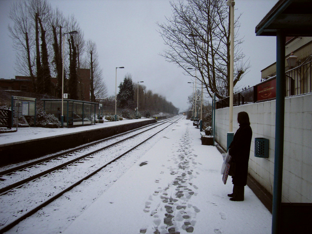 0720am at Pannal Railway Station in the snow. Commuter train to York is approaching with lights on.